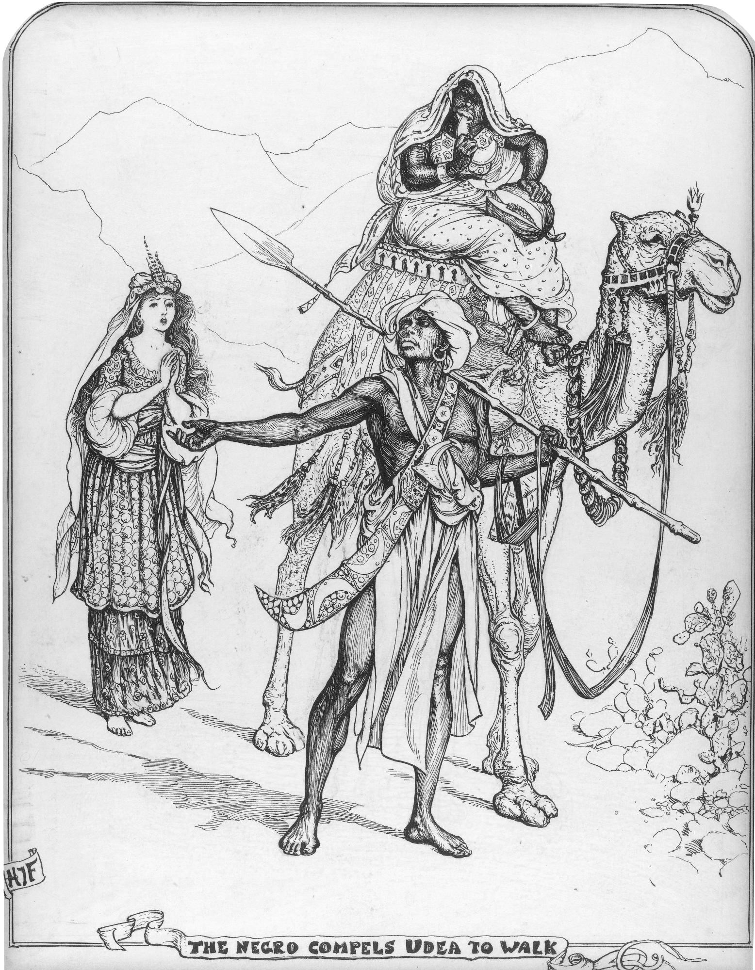 Udea and her Seven Brothers ink drawing 27.5 by 21 Cm signed b.l.: HJF inscribed: THE NEGRO COMPELS UDEA TO WALK